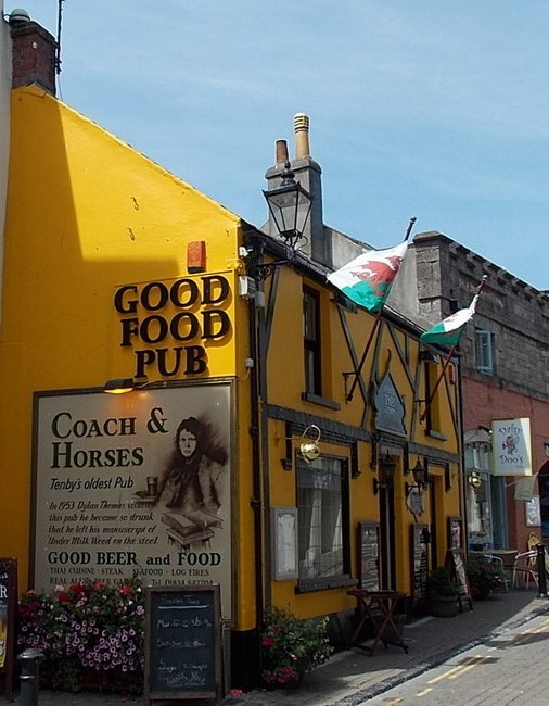 Coach & Horses, Tenby. Where Dylan Thomas is reputed to have been so drunk that he left his manuscript to Under Milk Wood.